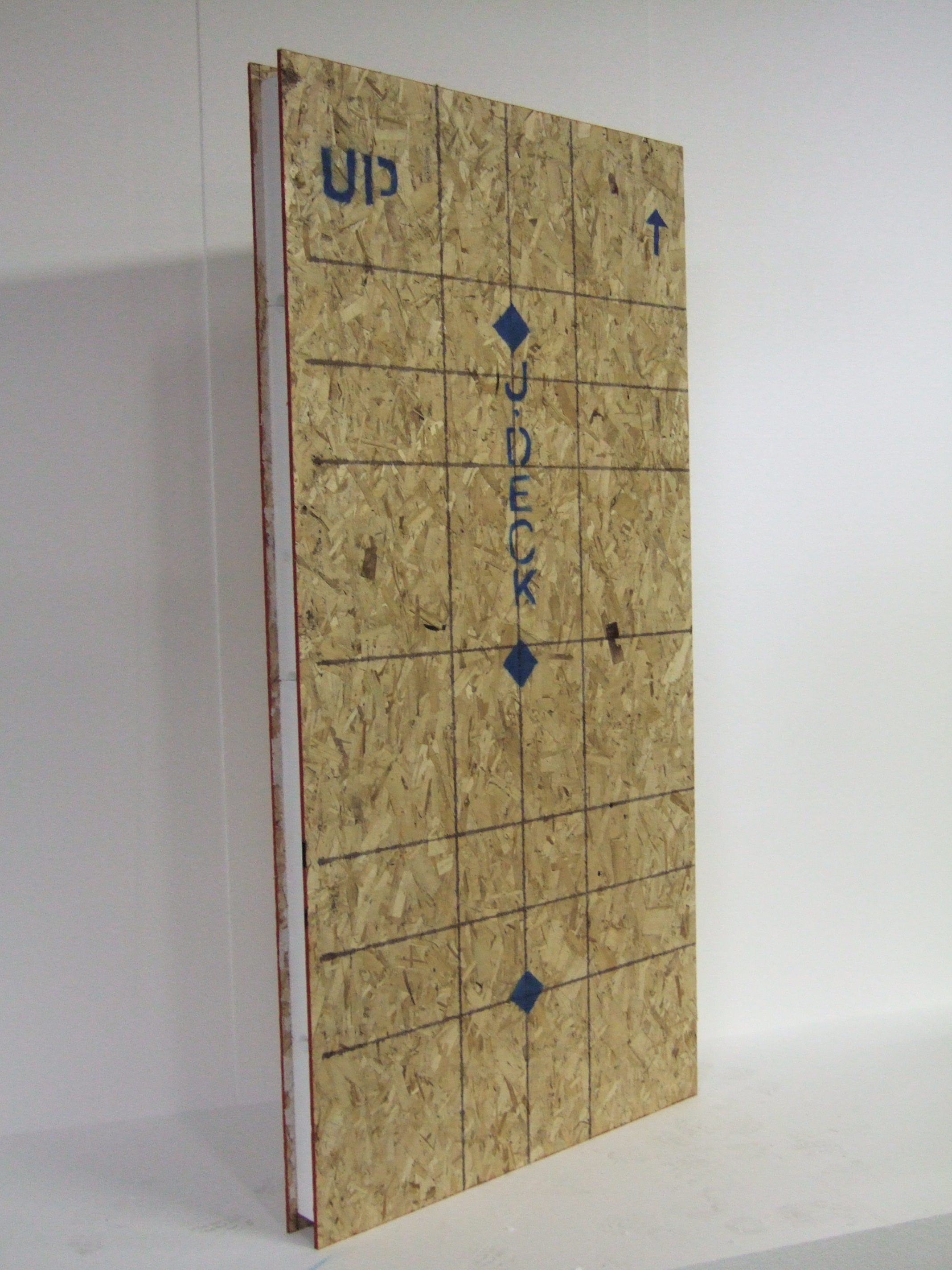 Sructural Insulated Panel with OSB Facings and EPS Core.